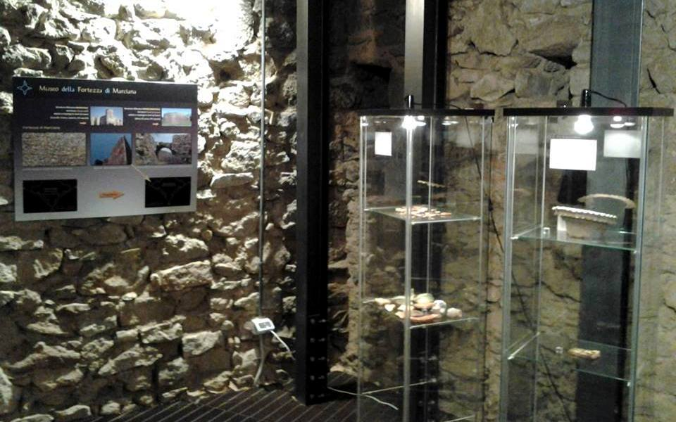 elba island